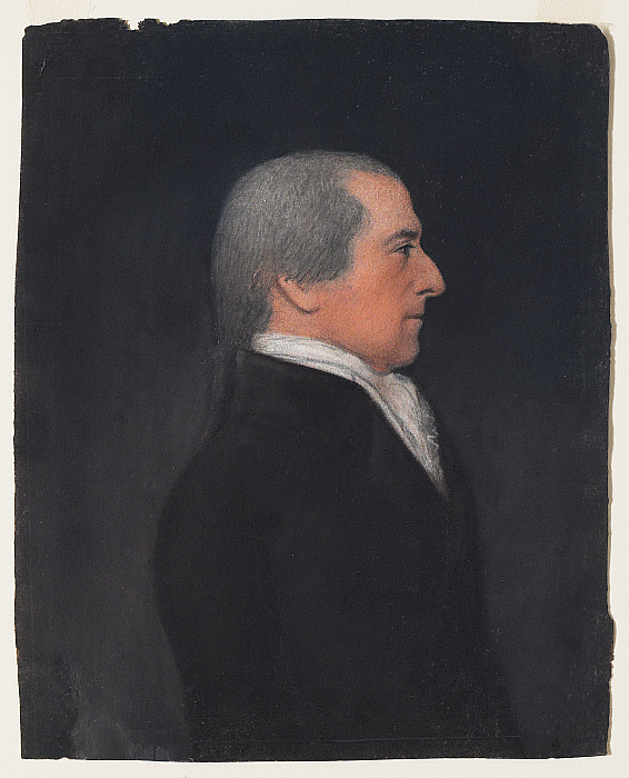 William W. Gilbert, attributed to James Sharples, c. 1795-1805, pastel on paper - Clark Art Institute.